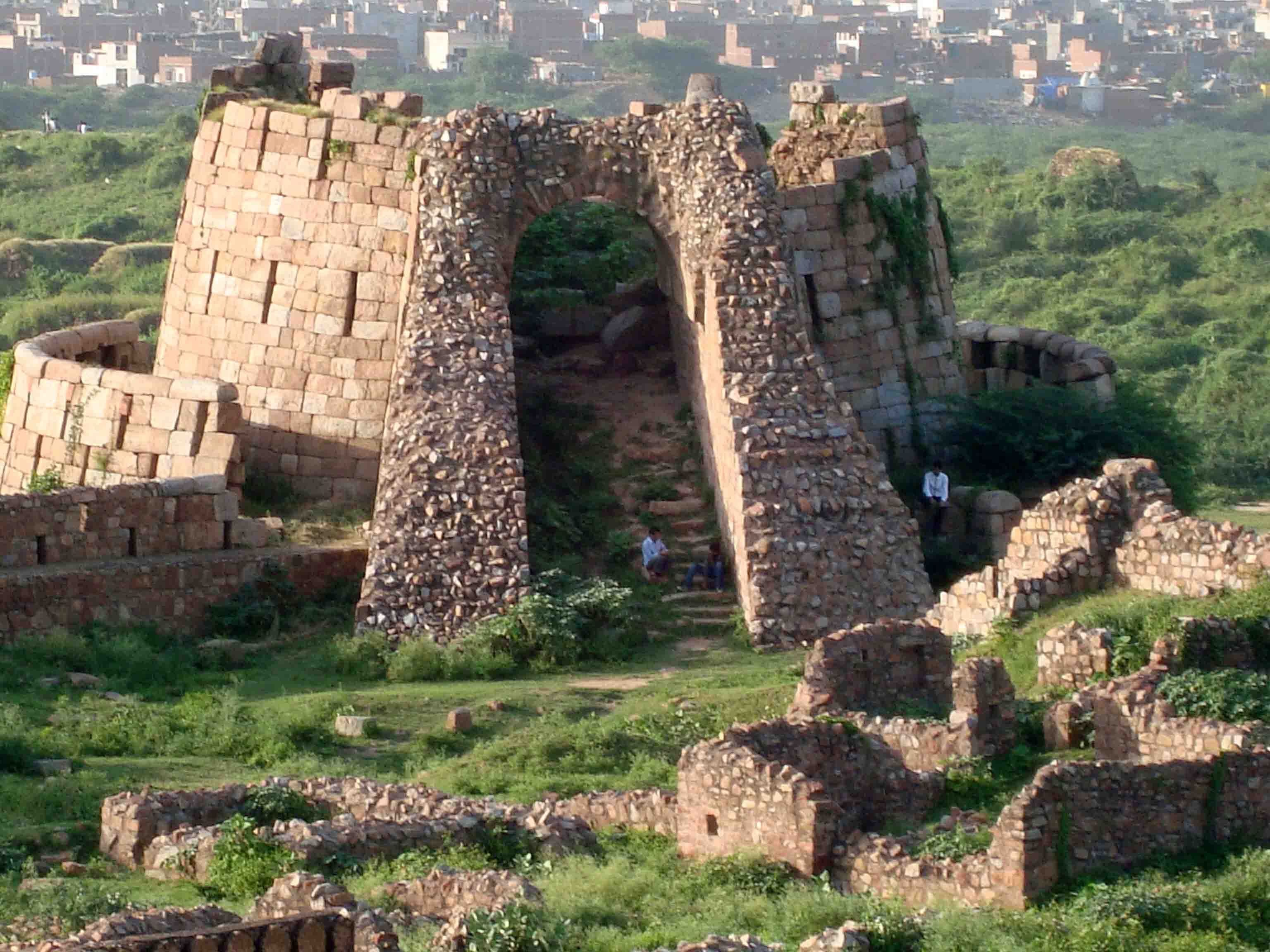 Walls, gateways bastions and internal buildings of both inner and outer citadels of Tughlaqabad fort